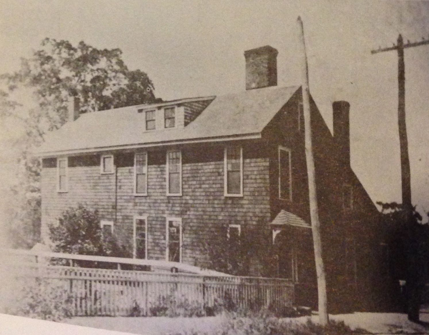 Nathaniel Daggett House - built ca 1690, expanded ca 1900, photo ca 1910